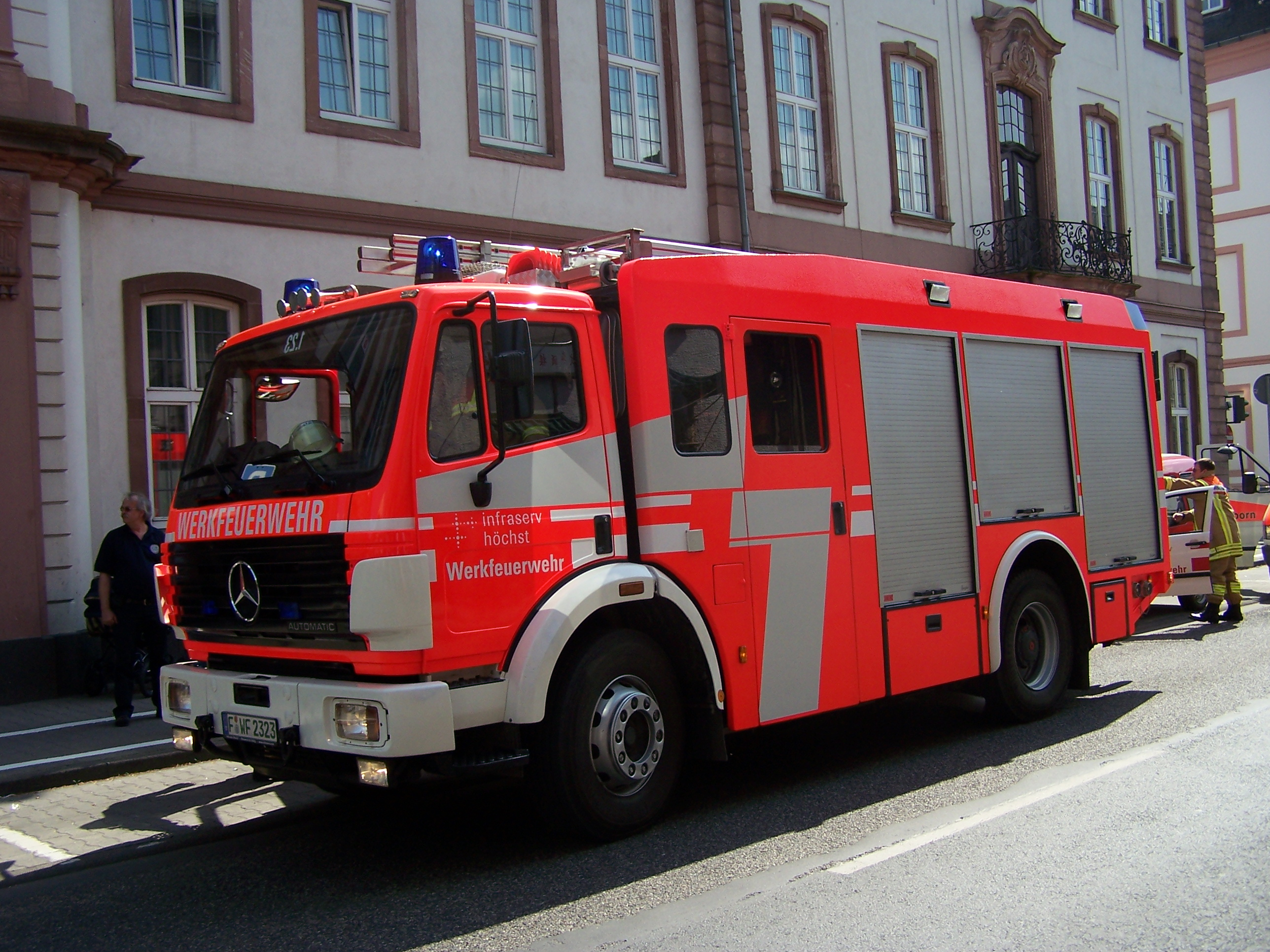 Industriepark Höchst firefighters at fire drill